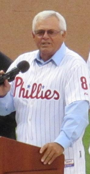 Bob Boone at Phillies Alumni Weekend introducing Mike Lieberthal for Wall of Fame induction.